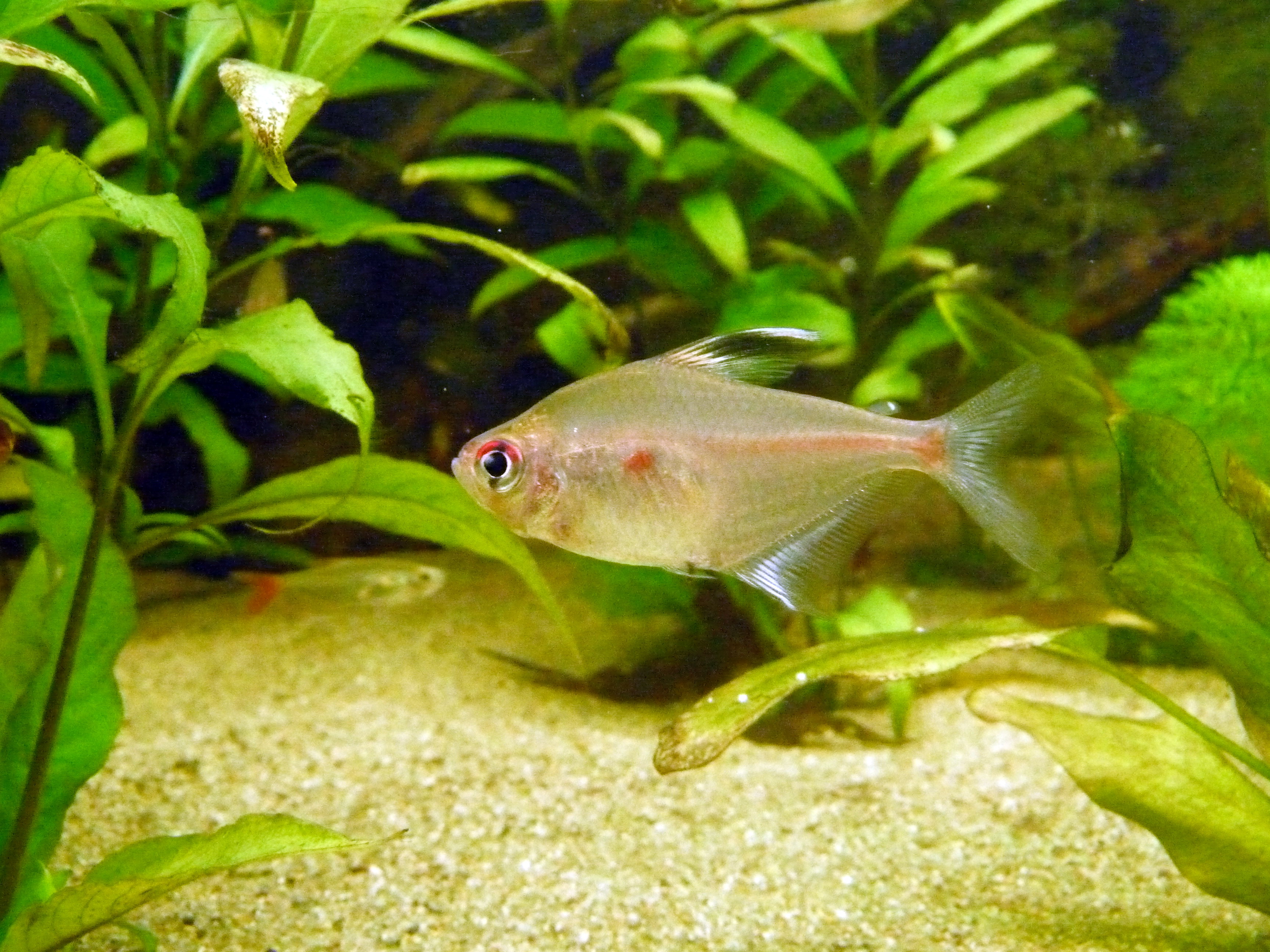 Hyphessobrycon erythrostigma female